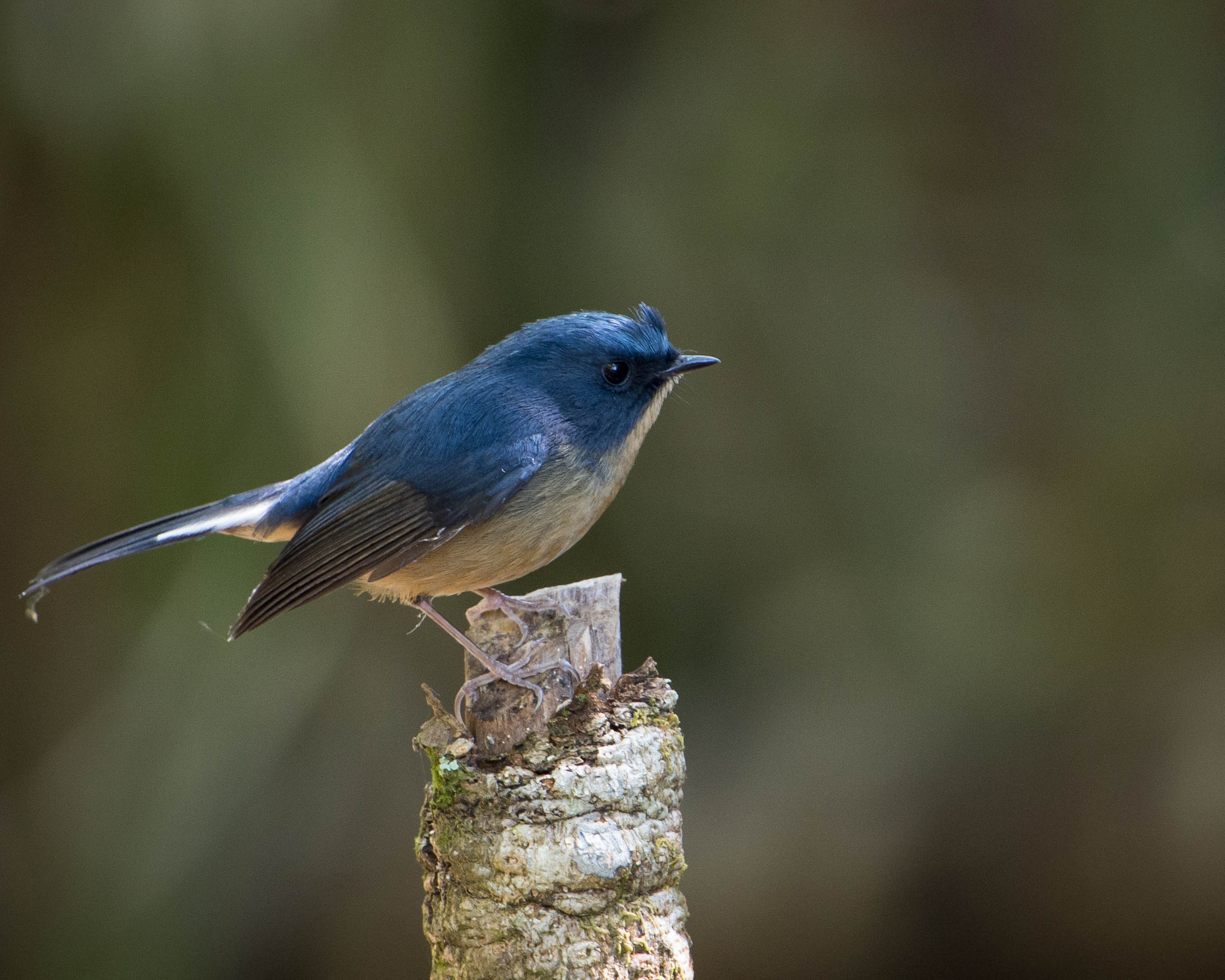 Male of Slaty-blue Flycatcher (Ficedula tricolor) at Mae Ai, Chiang Mai Thailand